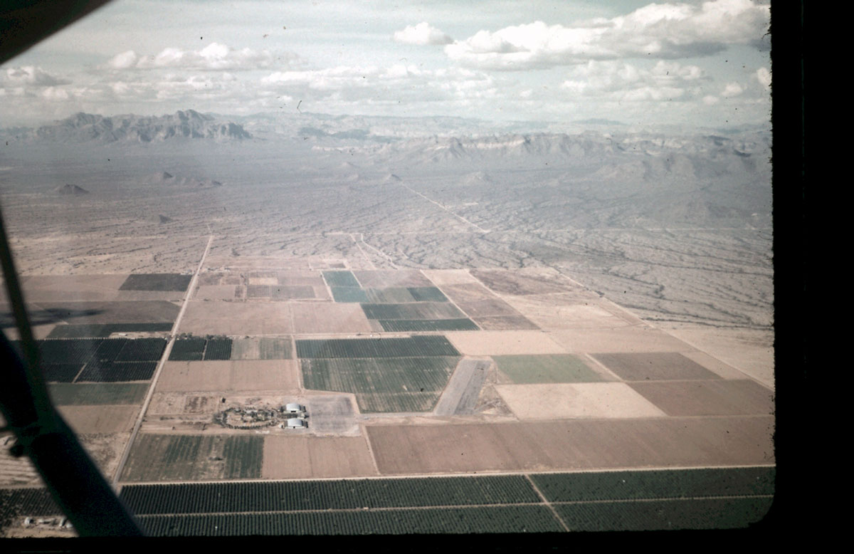 Flying over Falcon Field in Mesa, looking east - 1955. Scanned from slides that my grandfather took.